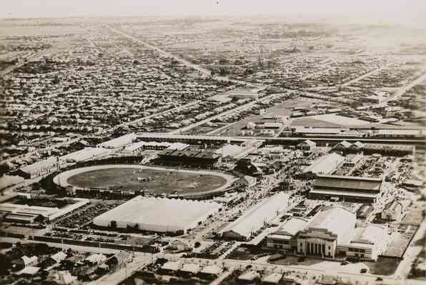 Aerial view of Wayville Showgrounds, the Anzac Highway and western suburbs during the Royal Adelaide Exhibition 1947. The Centennial Hall can be seen at bottom right corner of view